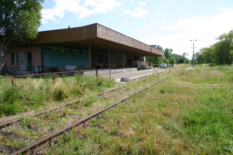 Frombork - railway station.